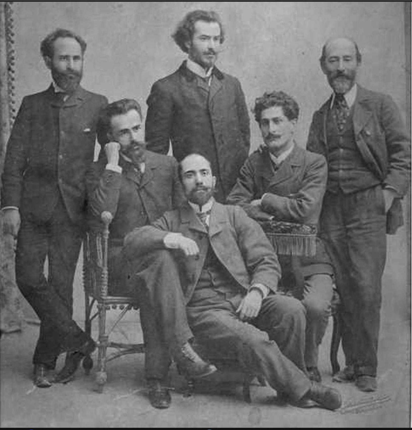 Standing from left to right, Sandro Gabunia, Commando Gogelia, Varlam Cherkezishvili, sitting in Archil Jorjadze, Mikheil Tsereteli, in the middle of George Dekanozishvili, photographer D. Ermakovi